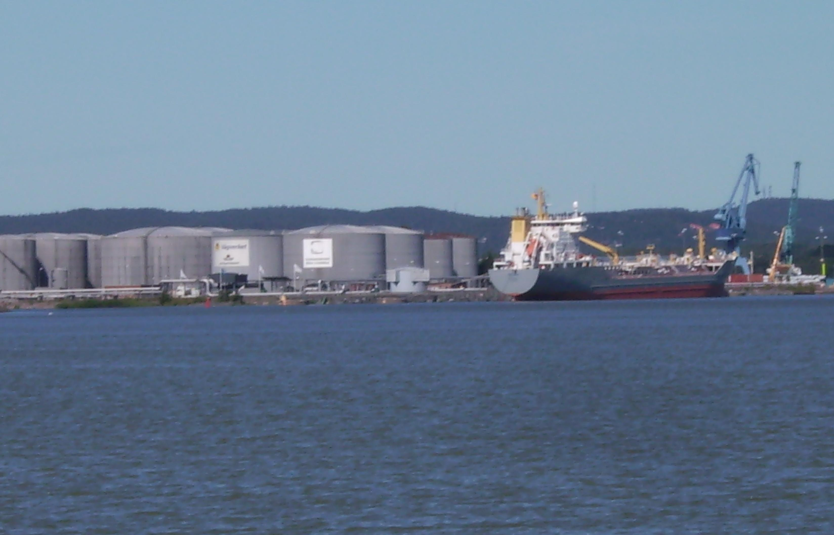 The harbour and factory area in Norrköping and the bay Bråviken.